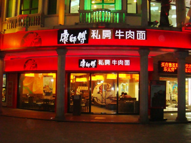 Kang shifu beef noodle restaurant, Gulangyu.